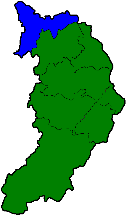 District (rayon) locator in Khakassia